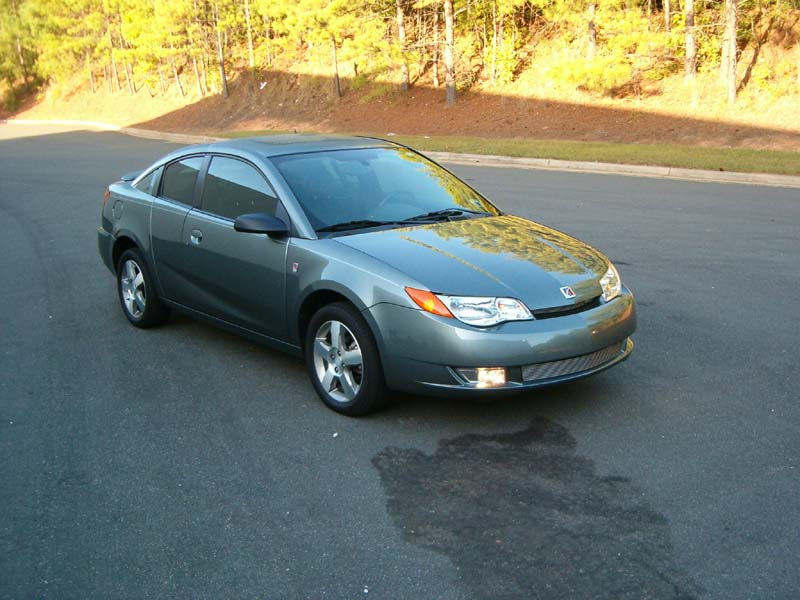 2007 Saturn Ion 3